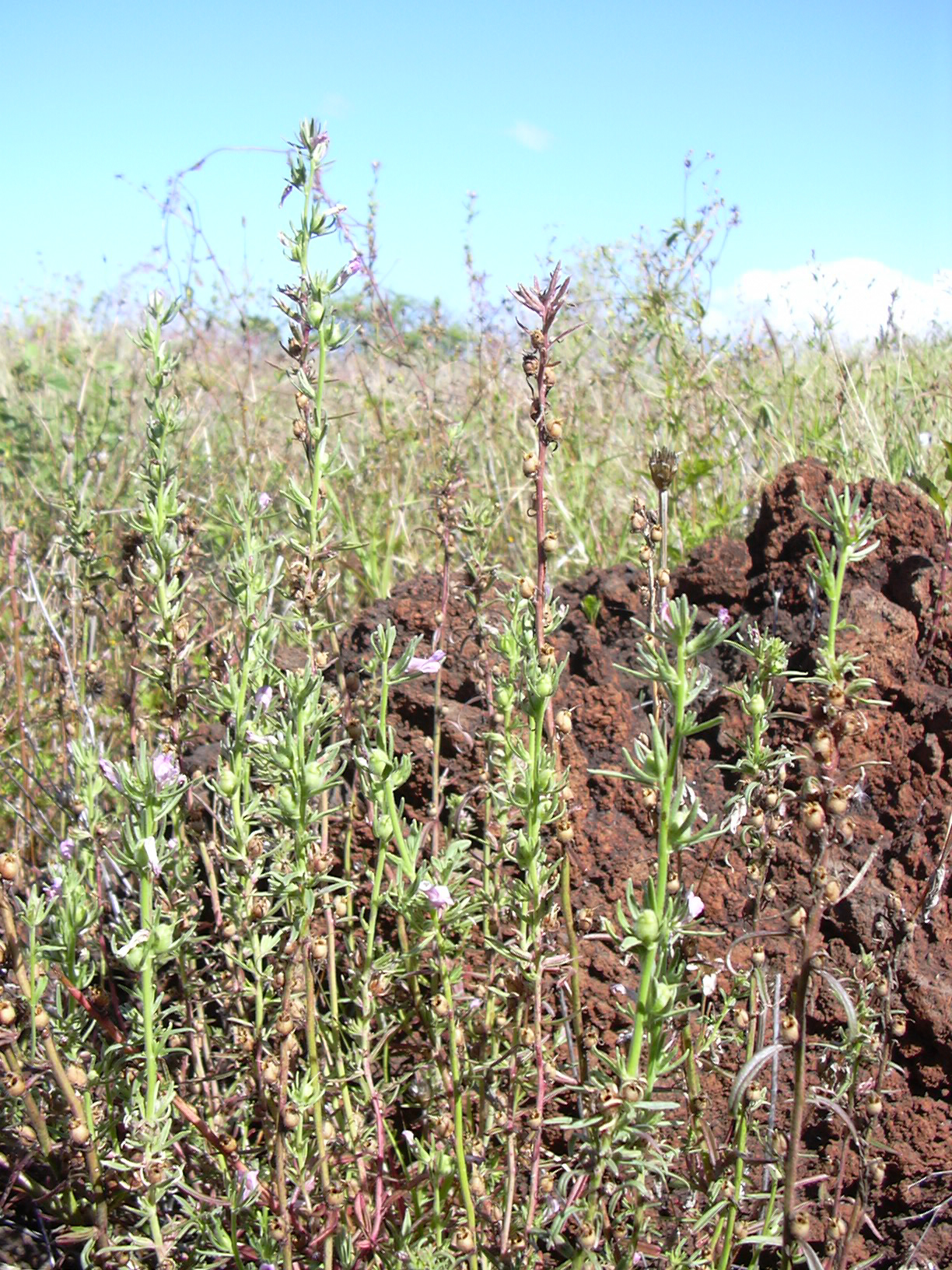 Antirrhinum orontium (habit). Location: Maui, Puu o Kali